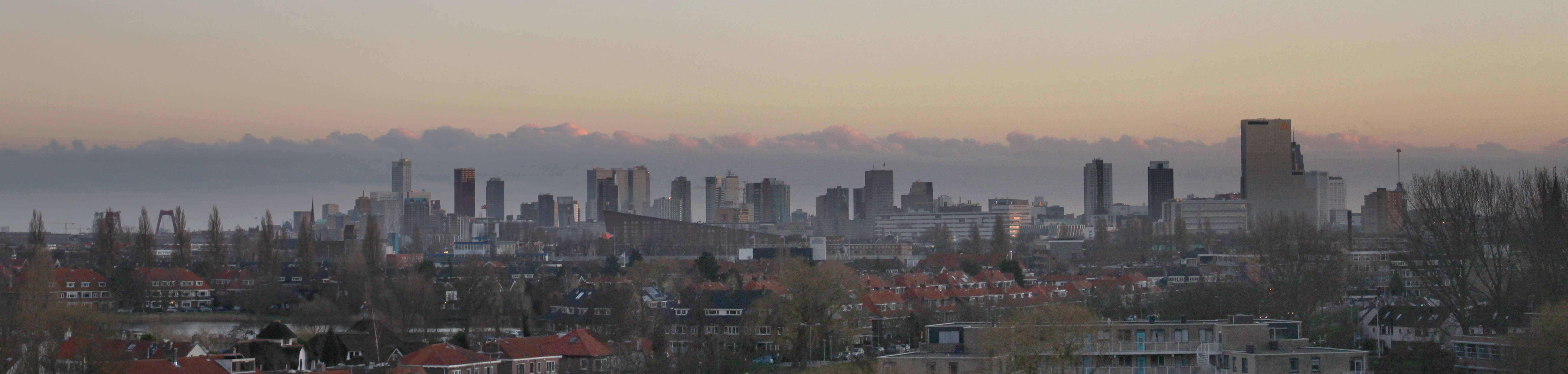 Rotterdam Skyline